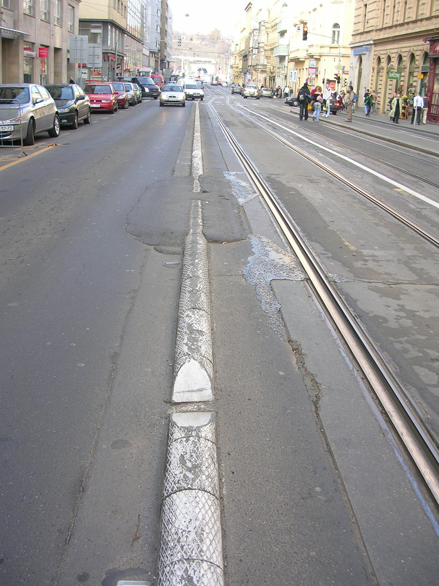 Old Town and New Town, Prague. Tram track separated by longitudinal sleeper.